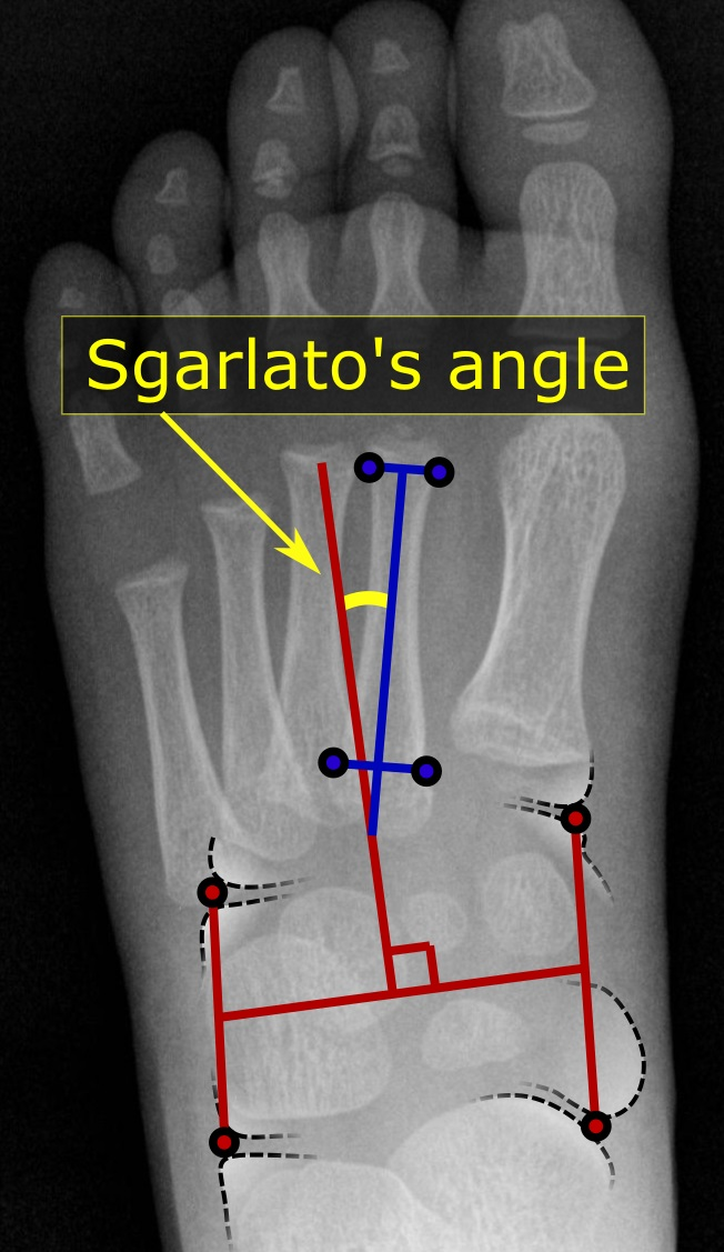 Dorsoplantar X-ray of a normal foot of a 3 year old male, with Sgarlato's angle of metatarsus adductus. Further information: Pigeon toe